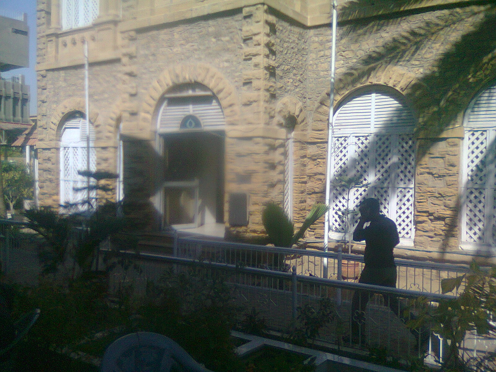 Karachi Press Club Building